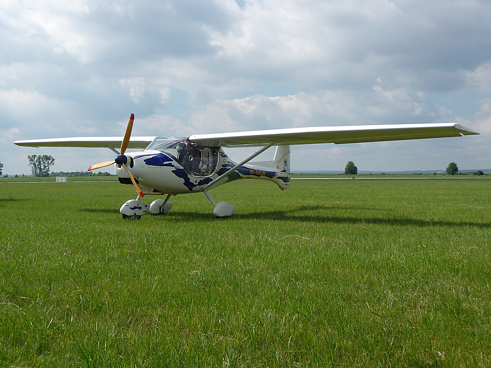 Fantasy Air Allegro 2000, OK-FUU 20